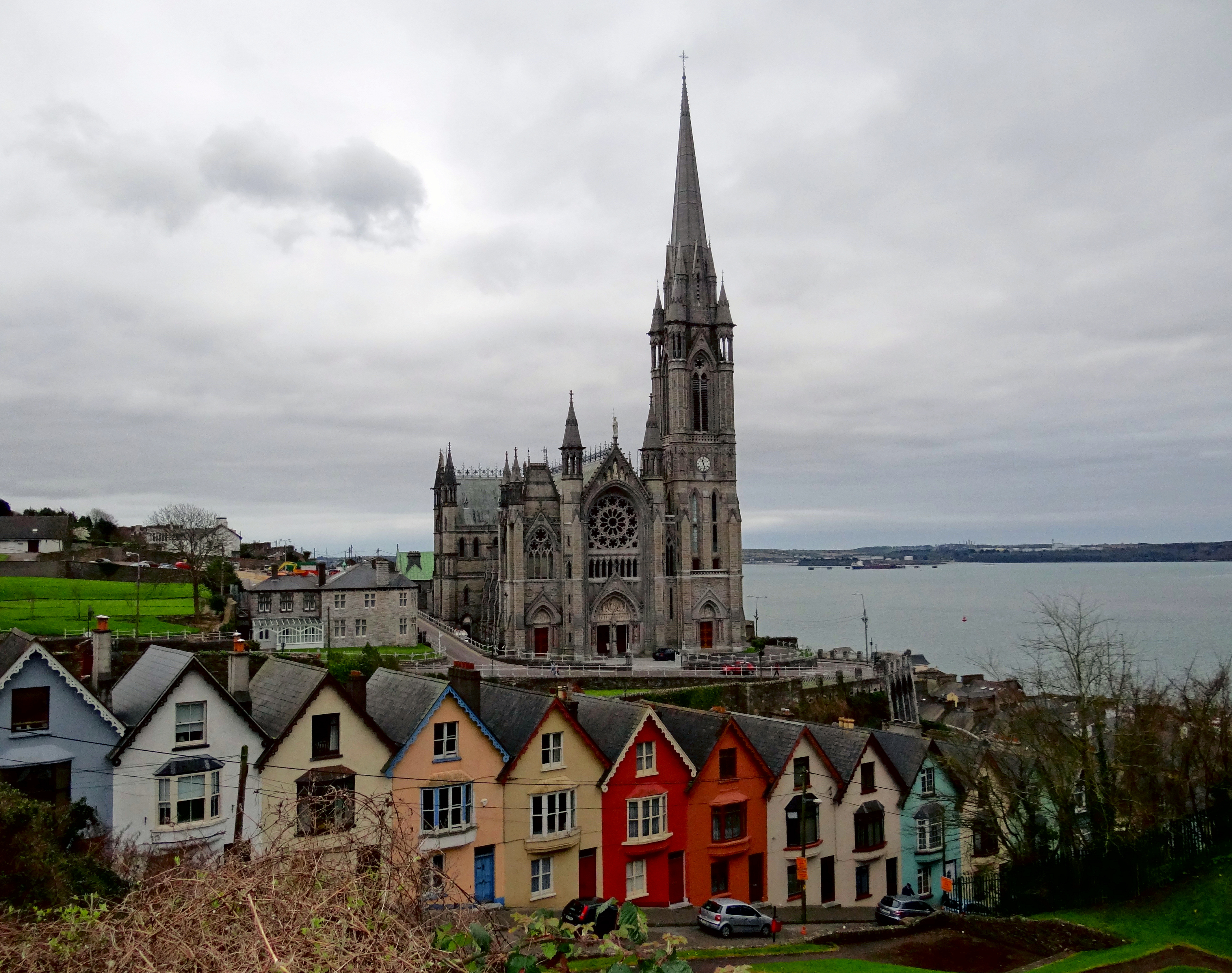 The Cobh Cathedral seen from the west side.